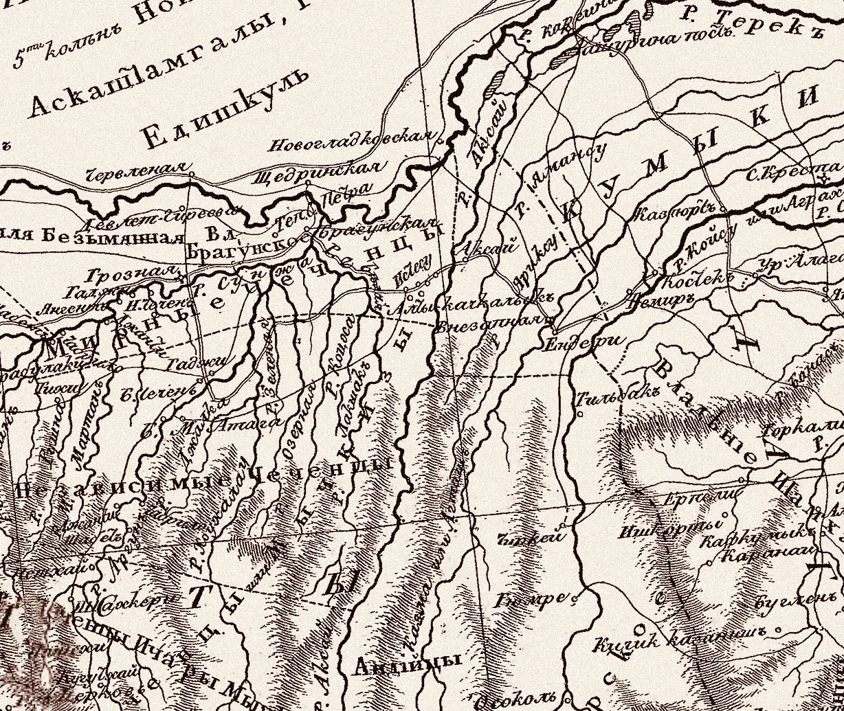 1823 map of the Kumyk Bragun principality